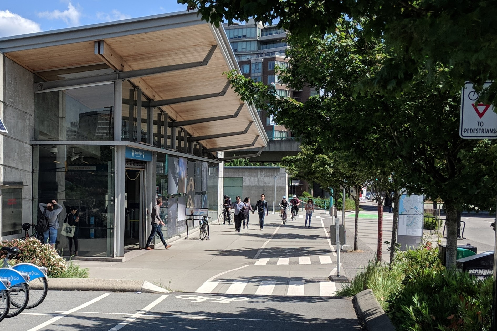 Olympic Village station viewed from the west on the northside of West 2nd Avenue. May 2019.